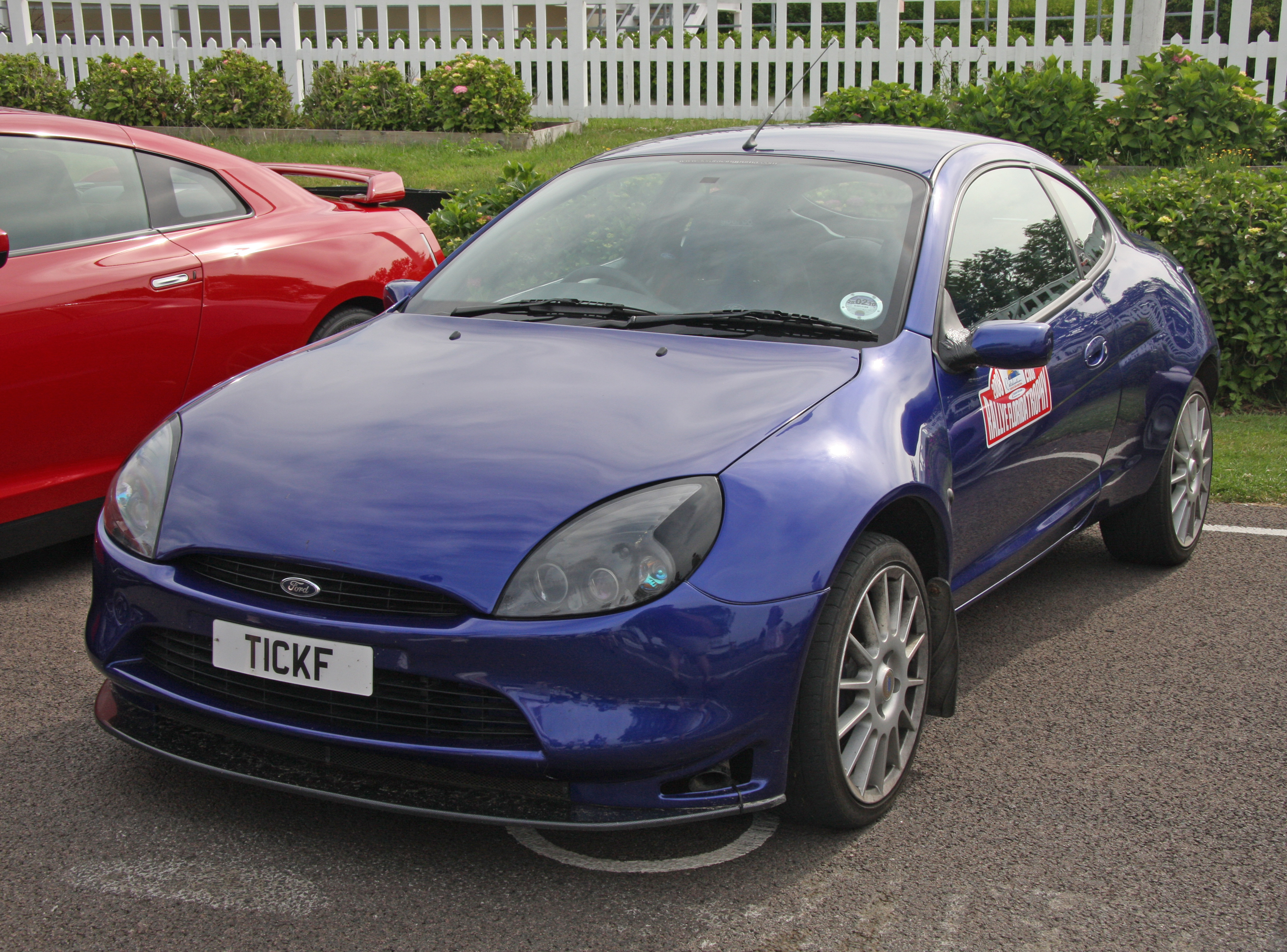 Ford Racing Puma Neat plate